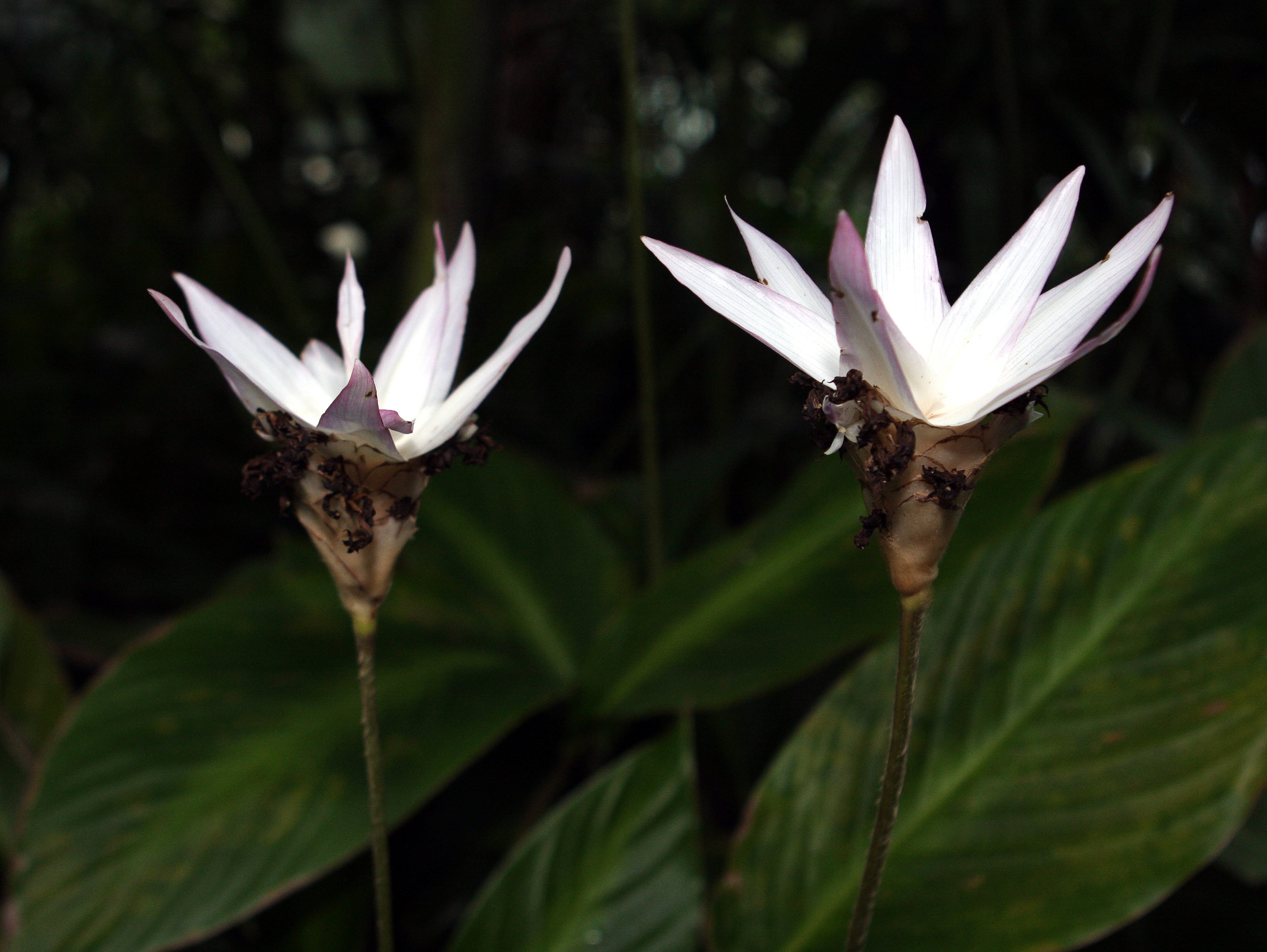 Calathea loeseneri